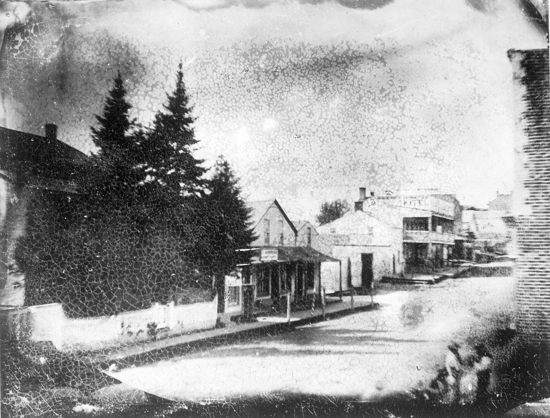 Main Street, Newmarket, Ontario, Canada.